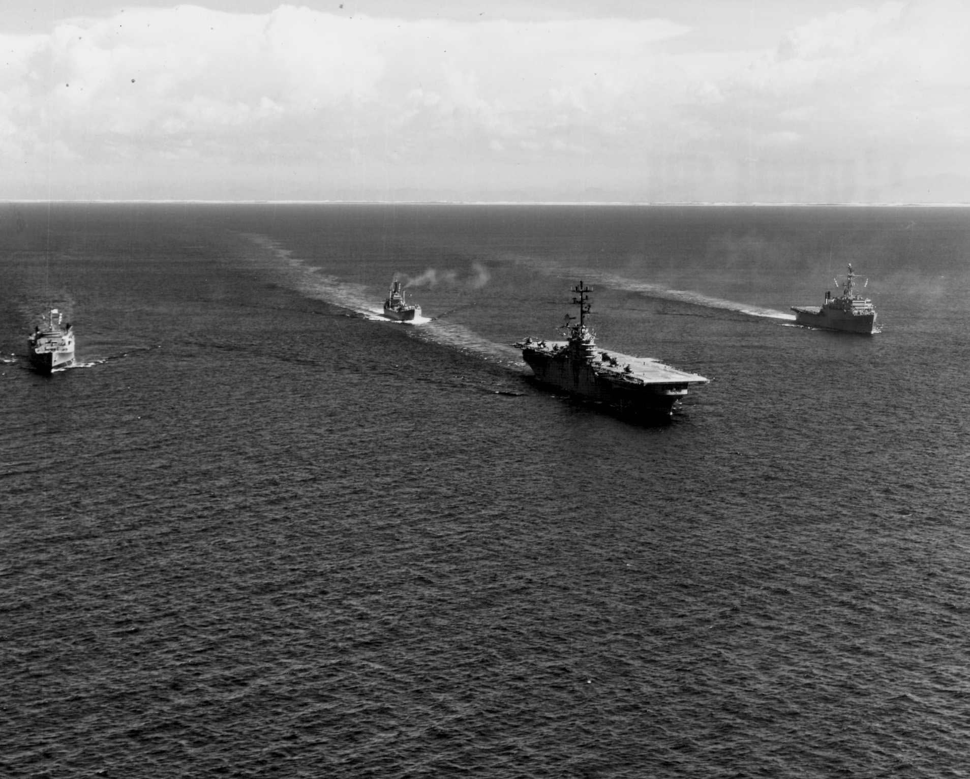 The U.S. Navy "Amphibious Ready Group Alpha" (Task Group 79.4) underway off Vietnam on 31 July 1968. The ships supported operations "Fortress Attack III" and "Scotland II". TG 79.4 consisted of the following ships (r-l): USS Dubuque (LPD-8), USS Princeton (LPH-5), USS Washoe County (LST-1165), and USS Point Defiance (LSD-31).